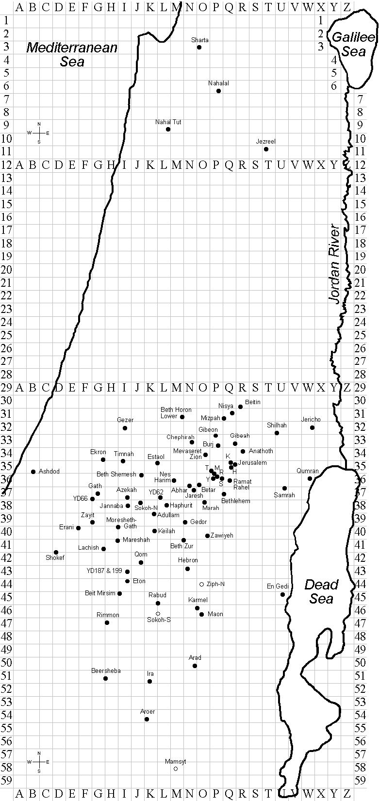 I made this image of LMLK sites over a grid-map of Israel on February 2nd, 2006.